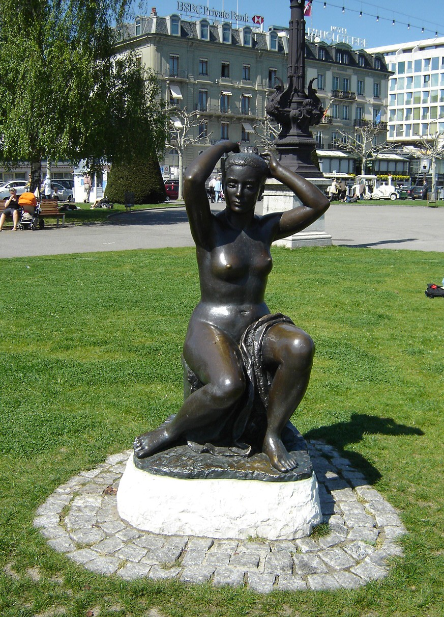 Lady Bathing in Geneva